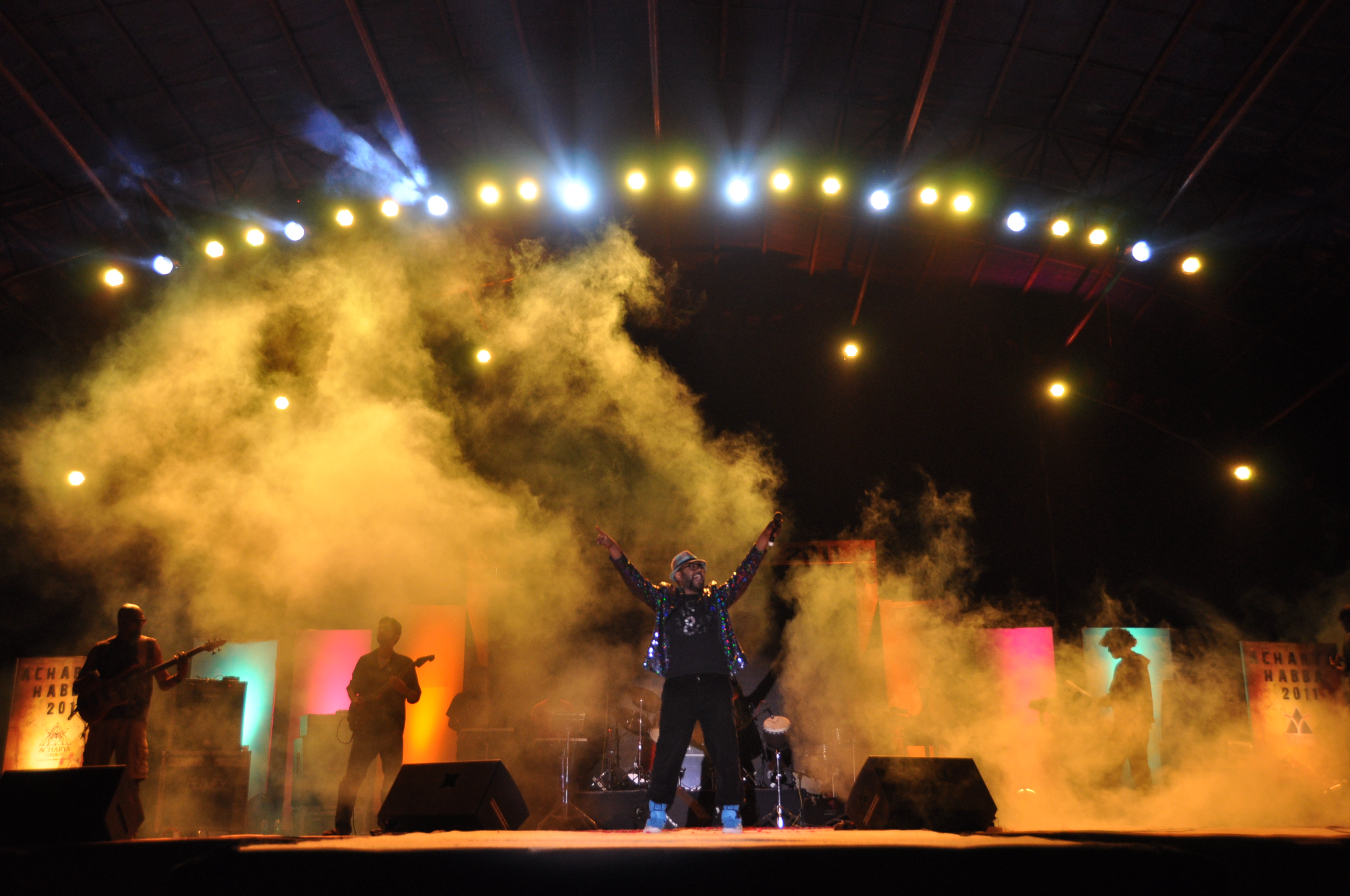 Benny Dayal@ Acharya Habba